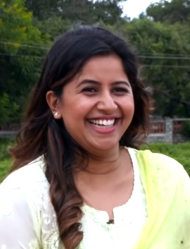 Indian actress Anushree, in conversation with Sadhguru